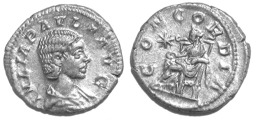 Denarius coin depicting Julia Cornelia Paula